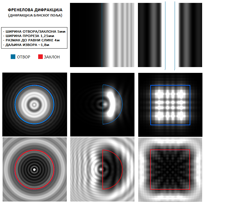 ФРЕНЕЛОВА ДИФРАКЦИЈА